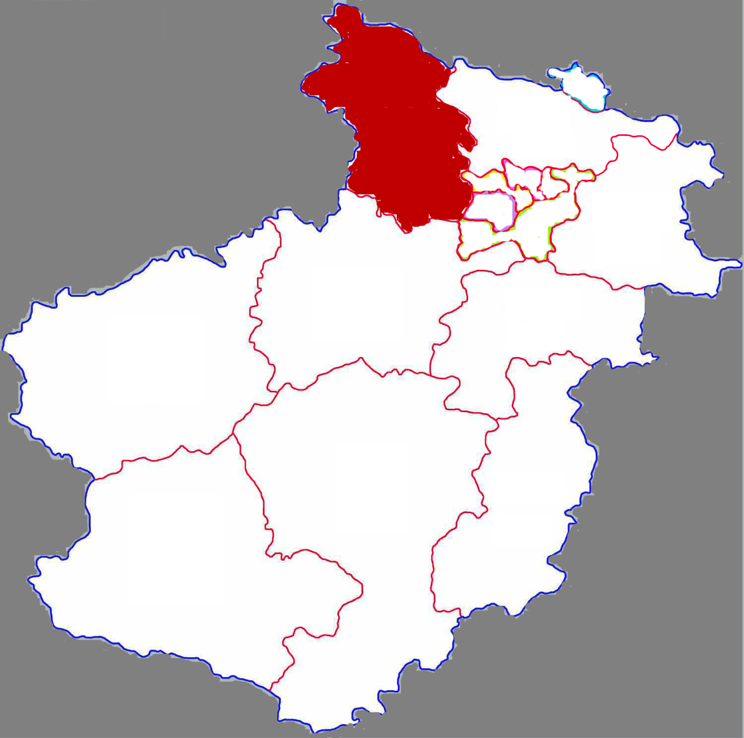 Location of Xin'ancounty in Luoyang city, China